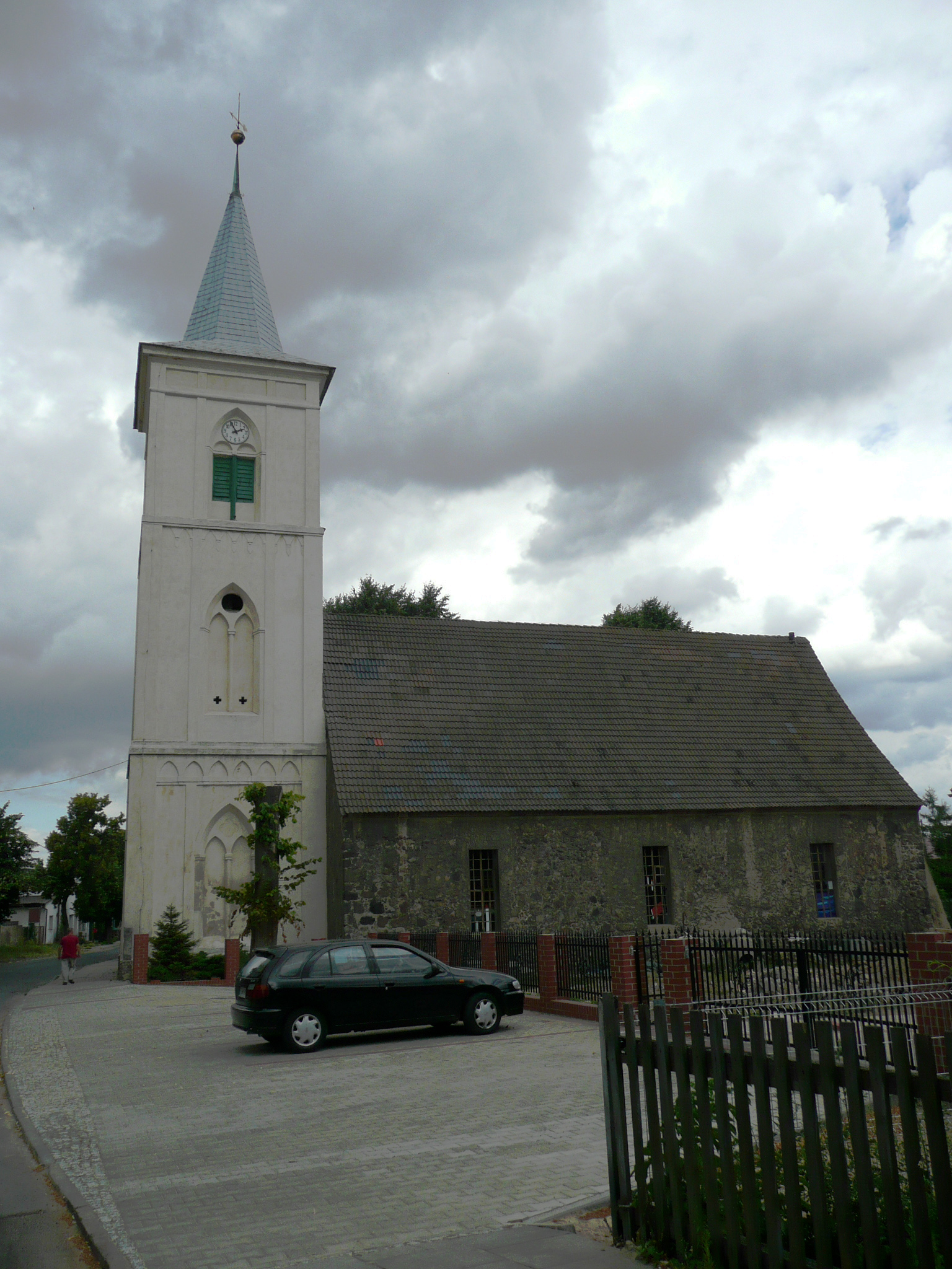 Saint Joseph church in Wawrów, Poland.